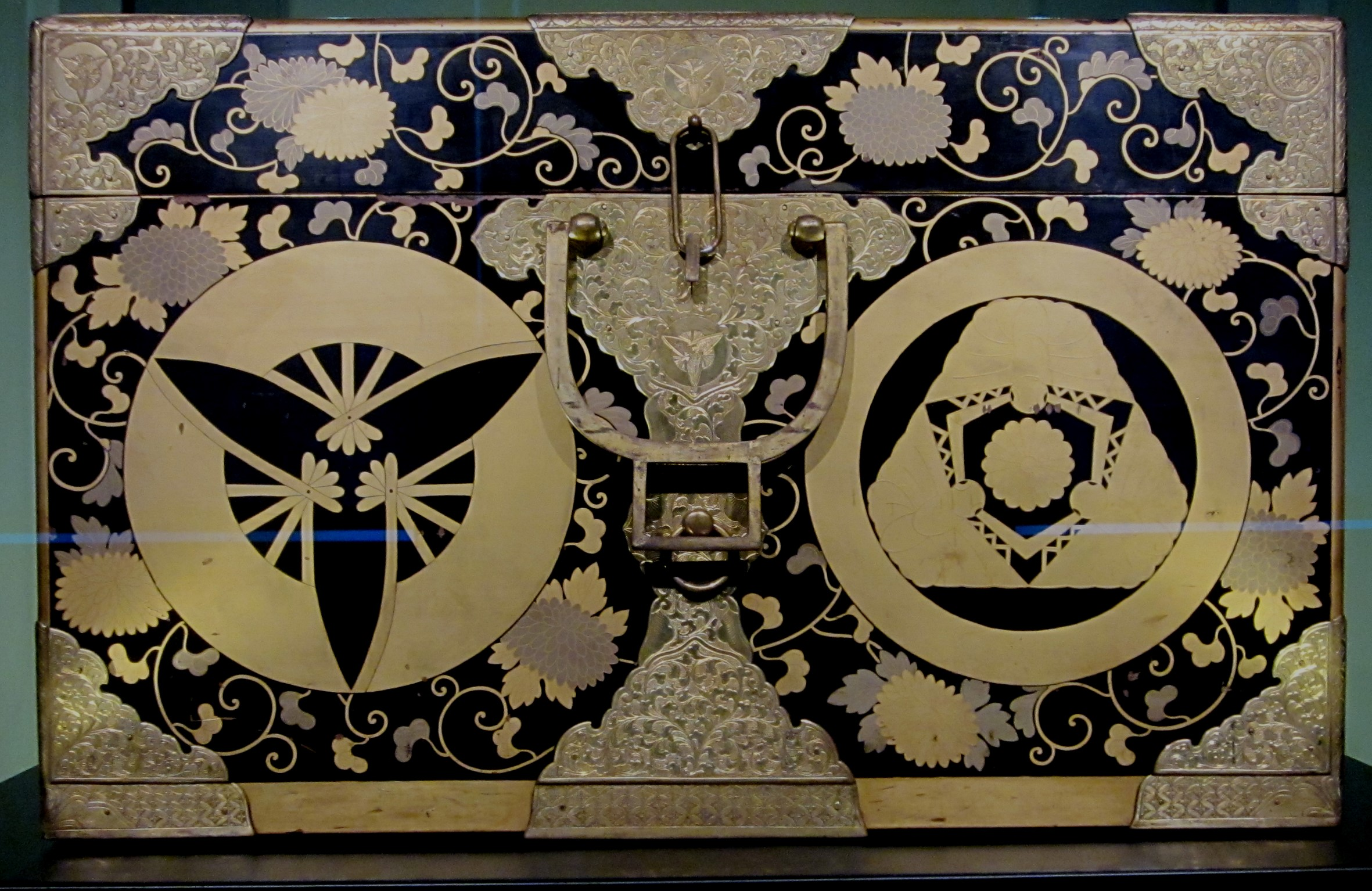 Chest of Okoxhi Family at Herzogliches Museum, Gotha, Germany